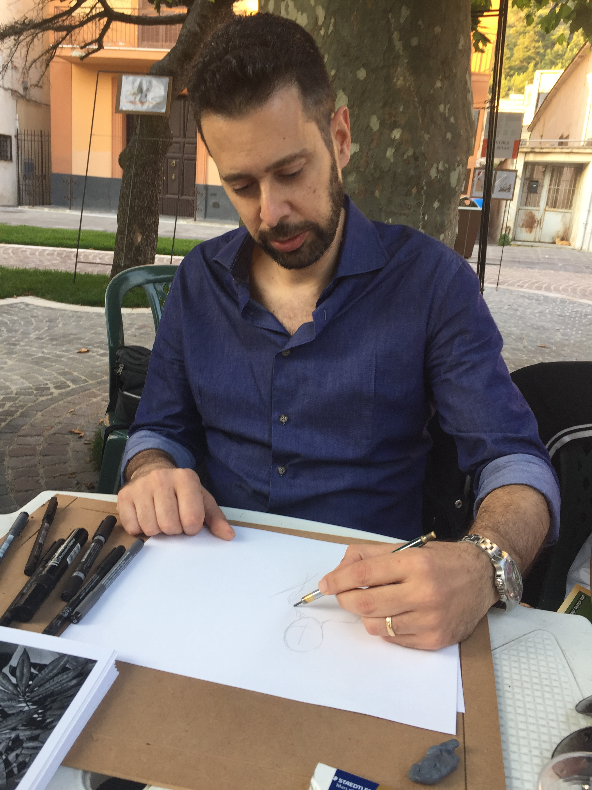 Alessandro Nespolino at "Sarno a Fumetti" 2016